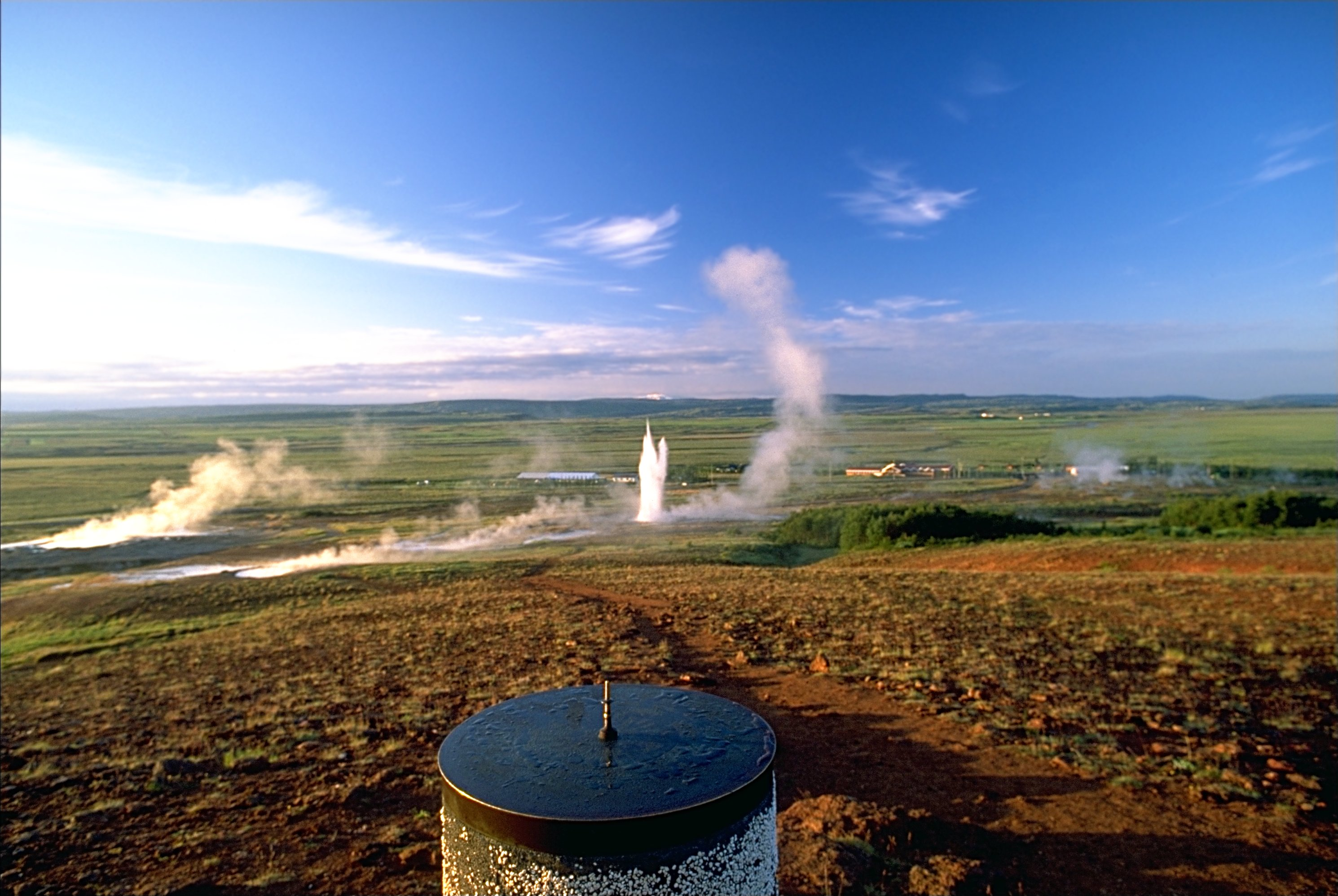 Overview of Haukadalur: Erupting Strokkur and steaming Great Geysir, Iceland Photo was taken using the following technique: Film: Fuji Velvia Lens: 2.0/20 Filter: none Body: Minolta 600si Support: Gitzo Monotrek Image with Information in English Bild mit Informationen auf Deutsch